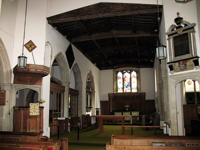 St Mary at Finchley. Interior of the church looking towards the altar and pulpit. This section of the church was destroyed by enemy action in 1940 and rebuilt in 1953.